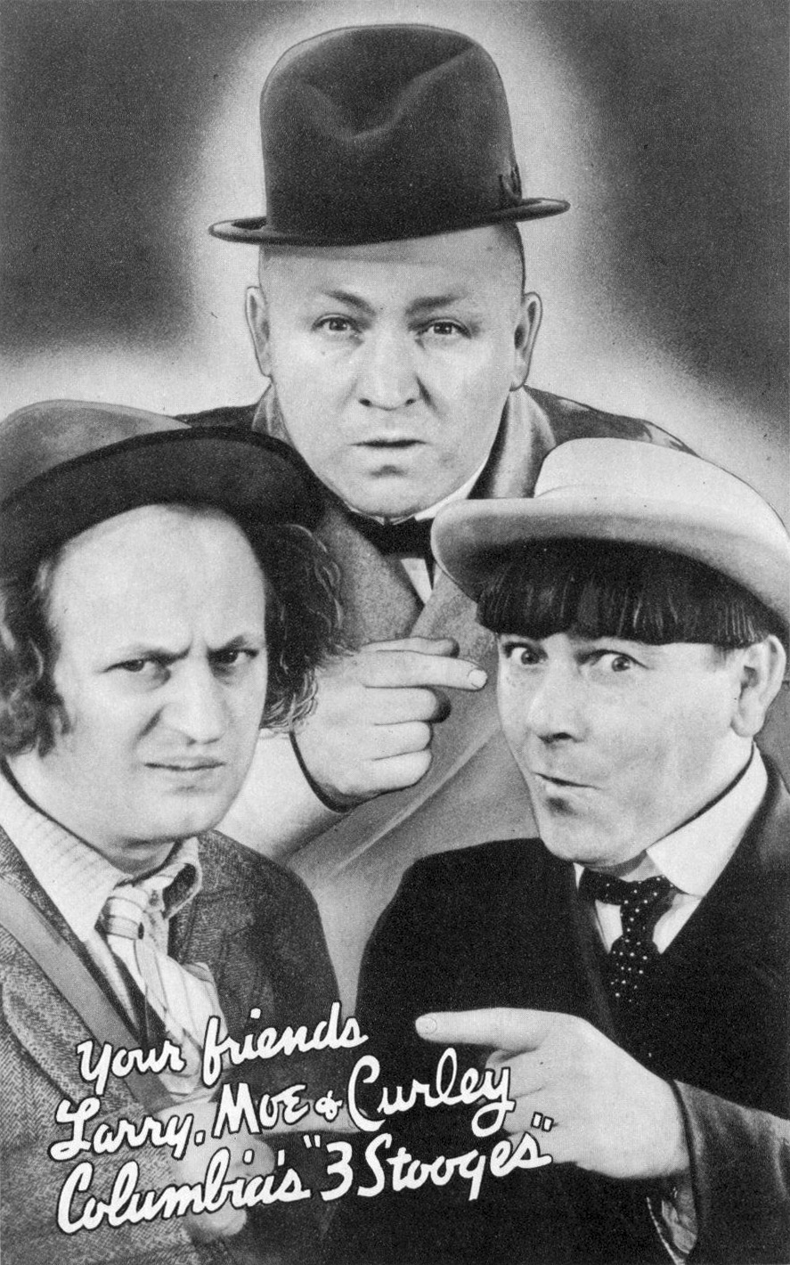 Advertising trade card picturing the Three Stooges-Larry Fine, Curly Howard and Moe Howard. The card was given to children at theaters where a Three Stooges film was playing. The bearer of the card had a chance to win a Three Stooges movie viewer at the theater. The card also promoted a giveaway from Pillsbury Farina. The grocer would give a movie viewer to anyone buying 2 packages of Pillsbury Farina.